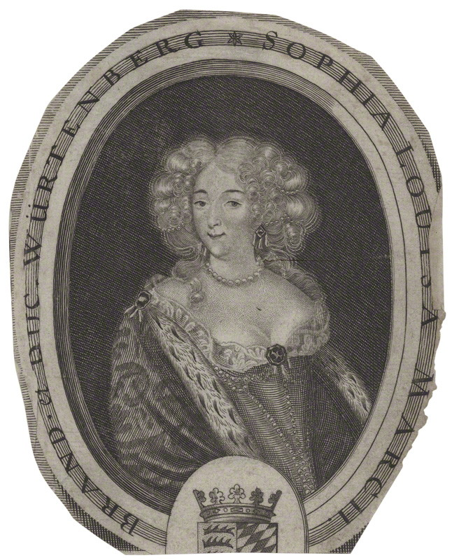 Sophie Louise of Württemberg-Stuttgart (1642-1702), Second wife of Christian Ernst, Margrave of Brandenburg-Bayreuth